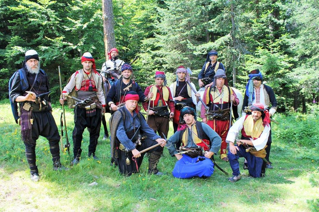 Kırcali marauder gang in Ottoman empire during XVIII-XIX century by "Хайдути" historical reenactment company in Plovdiv, Bulgaria.